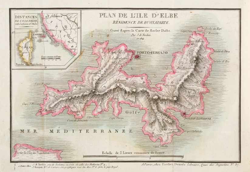 Map of the island of Elba. Included in Notice sur l'île d'Elbe (...) published in Paris soon after Napoleon landed at Elba after his abdication. Although the Treaty of Fontainebleau of April 1814 allowed Napoleon to retain his title of emperor, he is referred to merely as Buonaparte on the map, as well as in the book. The map was also sold separately from the book.